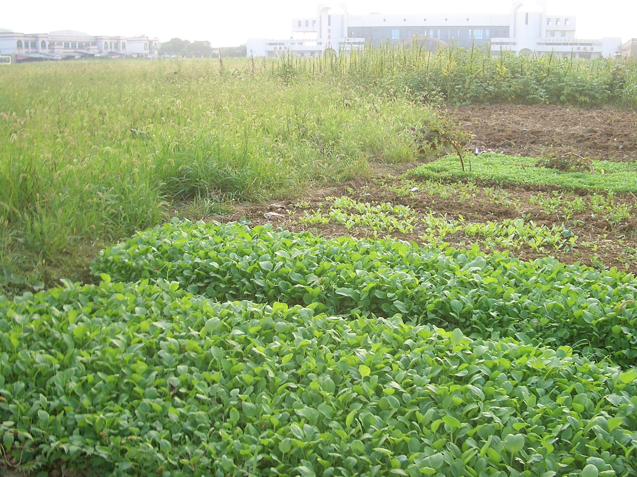 Ezhou train station, and wide - currently empy - field in front of it, part of which is used for vegetable gardens.